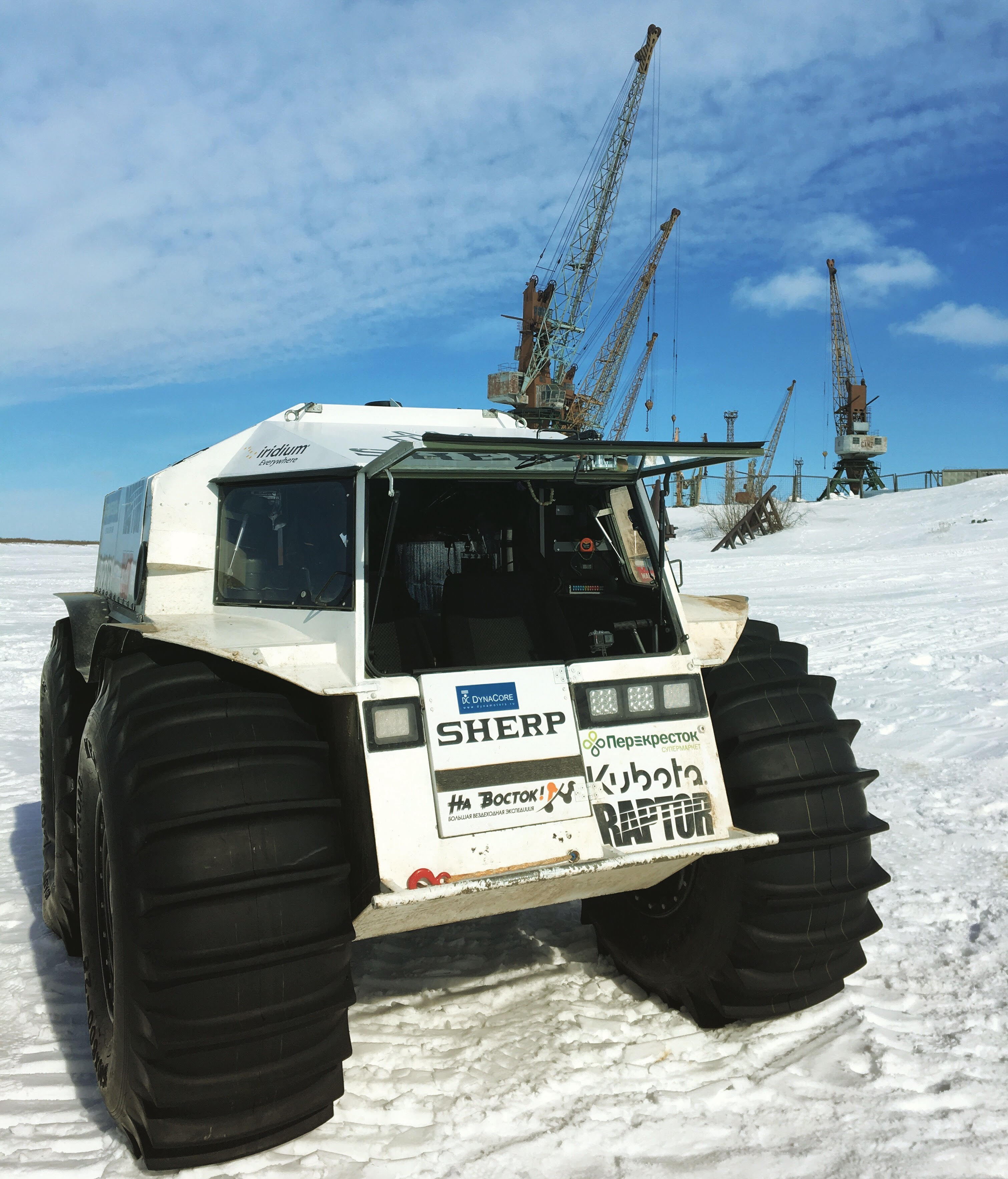 Sherp snow and swamp-going vehicle in Naryan-Mar.